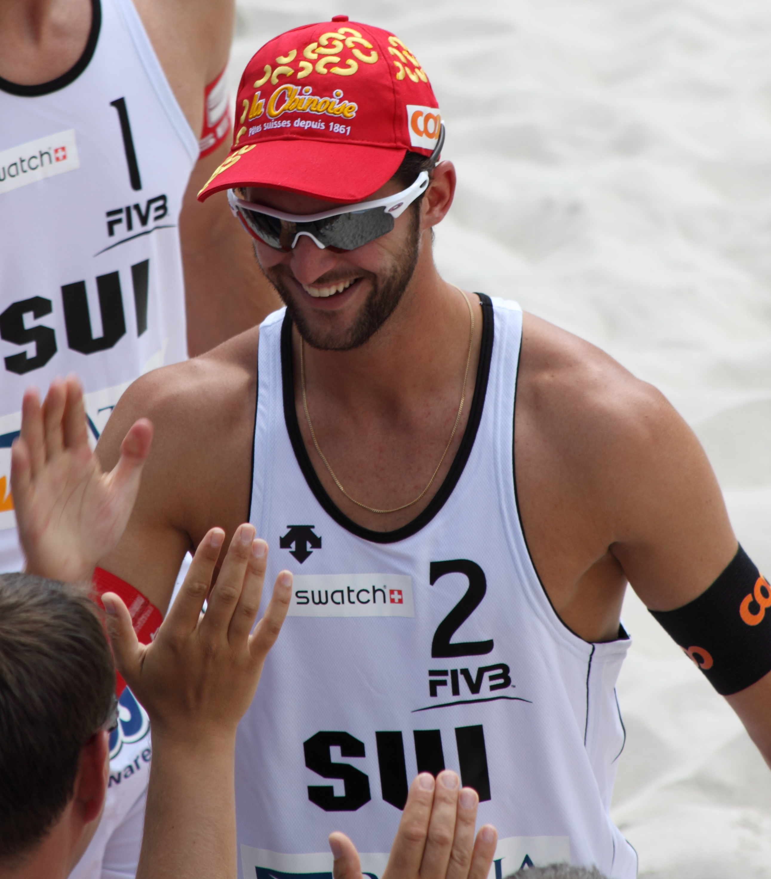 Sébastien Chevallier at Patria Direct Open 2011